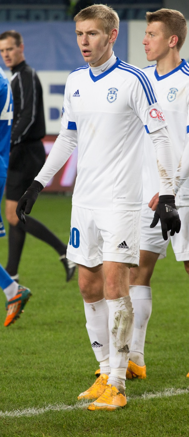 Igor Klimov with FC Sokol Saratov in a game against FC Dynamo Moscow.